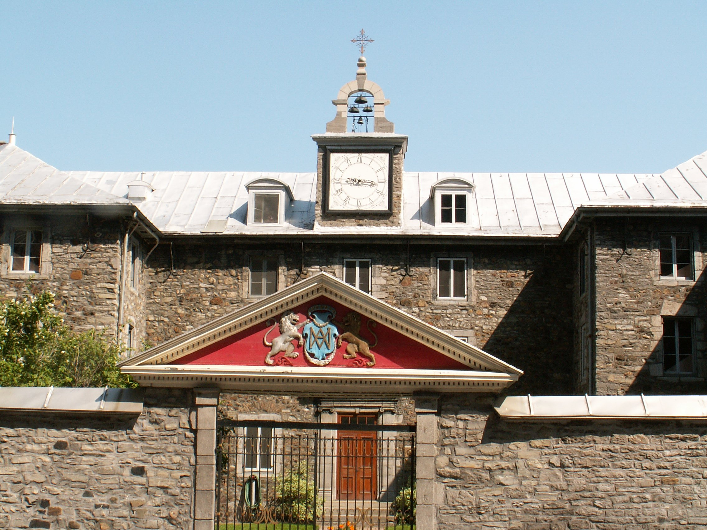 The Old Saint-Sulpice Seminary, at 116 Notre-Dame West, in Montreal. Built in 1684 based on plans by François Dollier de Casson.